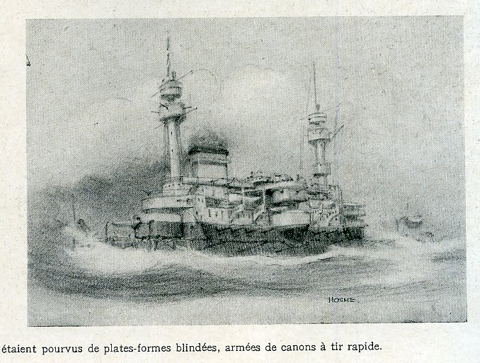 French Battleship Hoche.